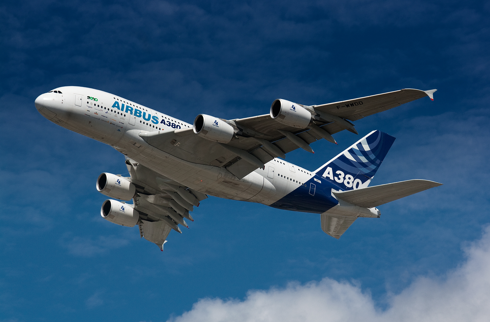 Airbus A380 on slow fly past.